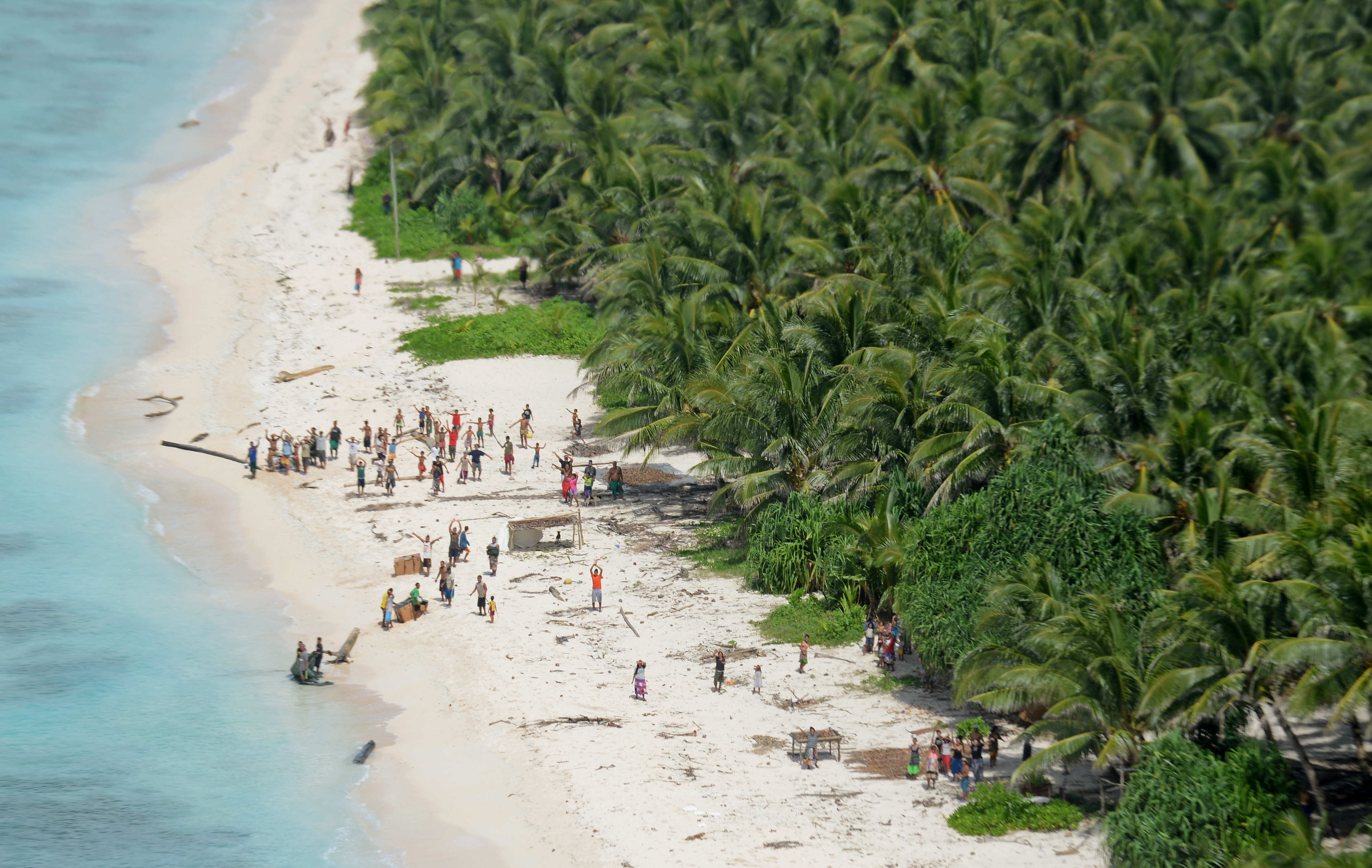 Locals from the Carolinian island of Satawal wave Dec. 7, 2016, during Operation Christmas Drop. Service members from the U.S. Air Force, U.S. Coast Guard and U.S. Navy, with international support from the Japan Air Self-Defense Force and Royal Australian Air Force came together to bring food, clothes, toys and supplies to people throughout the Pacific during the 65th Annual Operation Christmas Drop. (U.S. Air Force photo by Senior Airman Arielle K. Vasquez/Released) Unit: 36th Wing Public Affairs